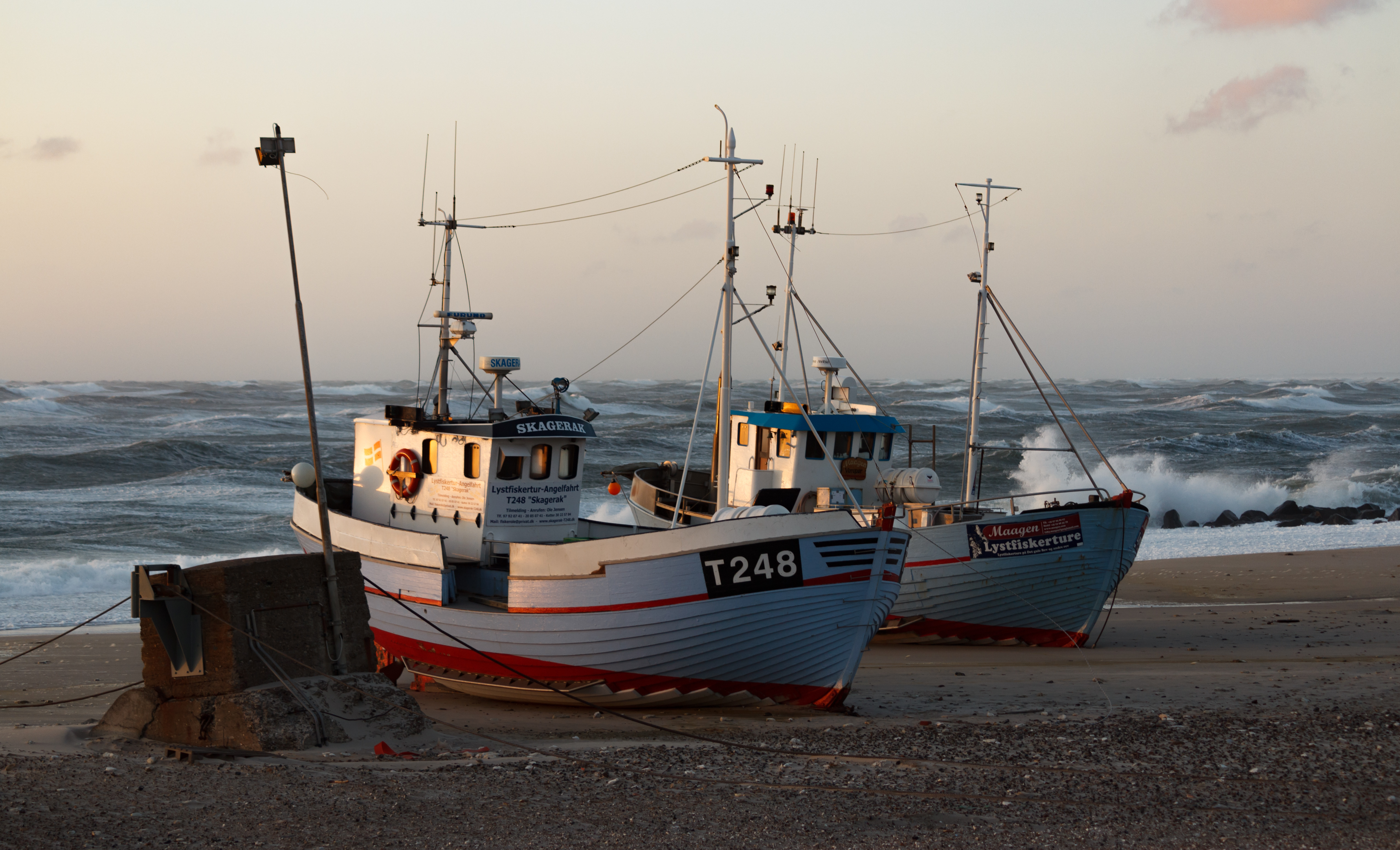 Two beached fishing vessels at sunset at Nørre Vorupør, Denmark